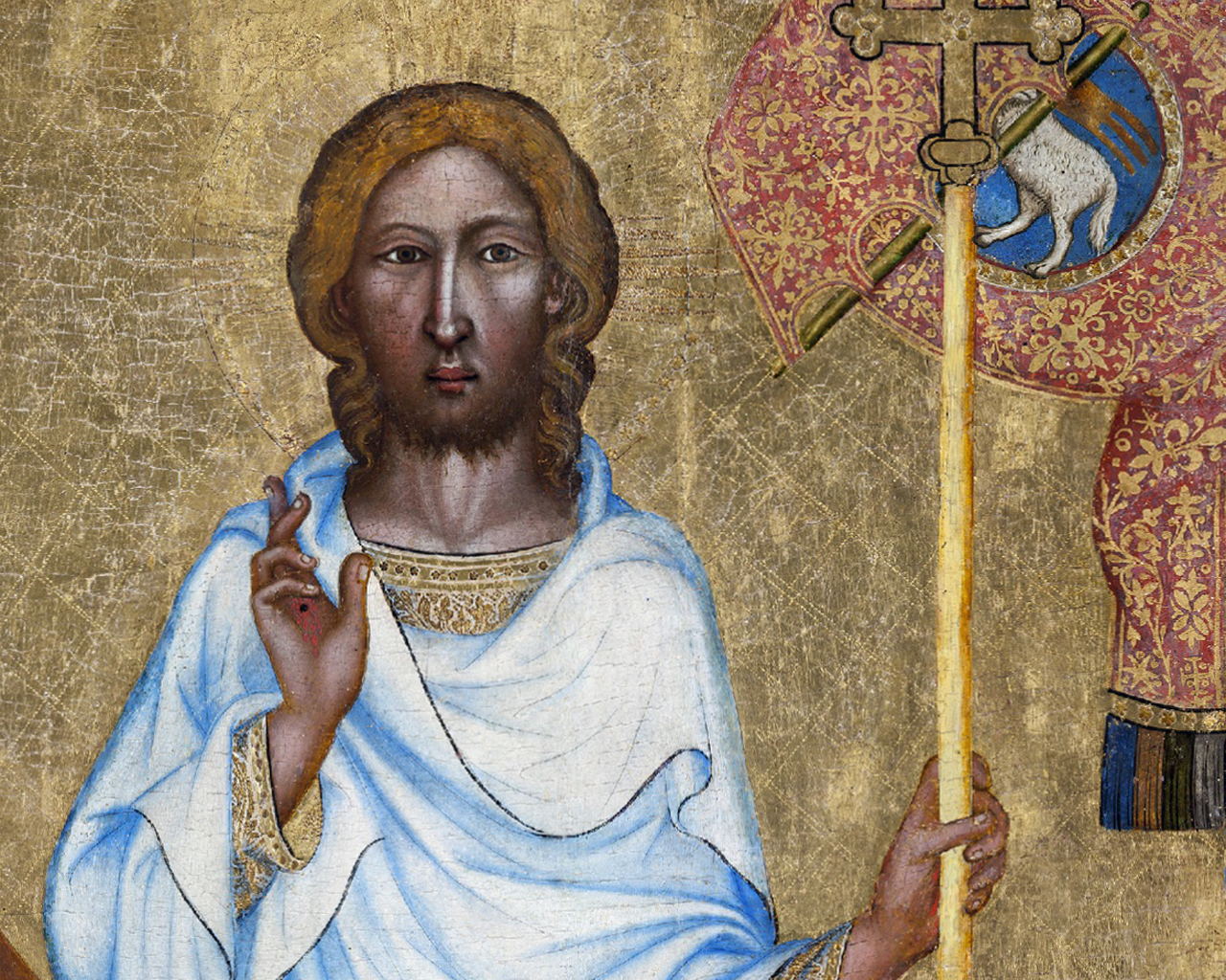 Hohenfurth Altarpiece - Resurrection of Jesus (detail), National Gallery in Prague